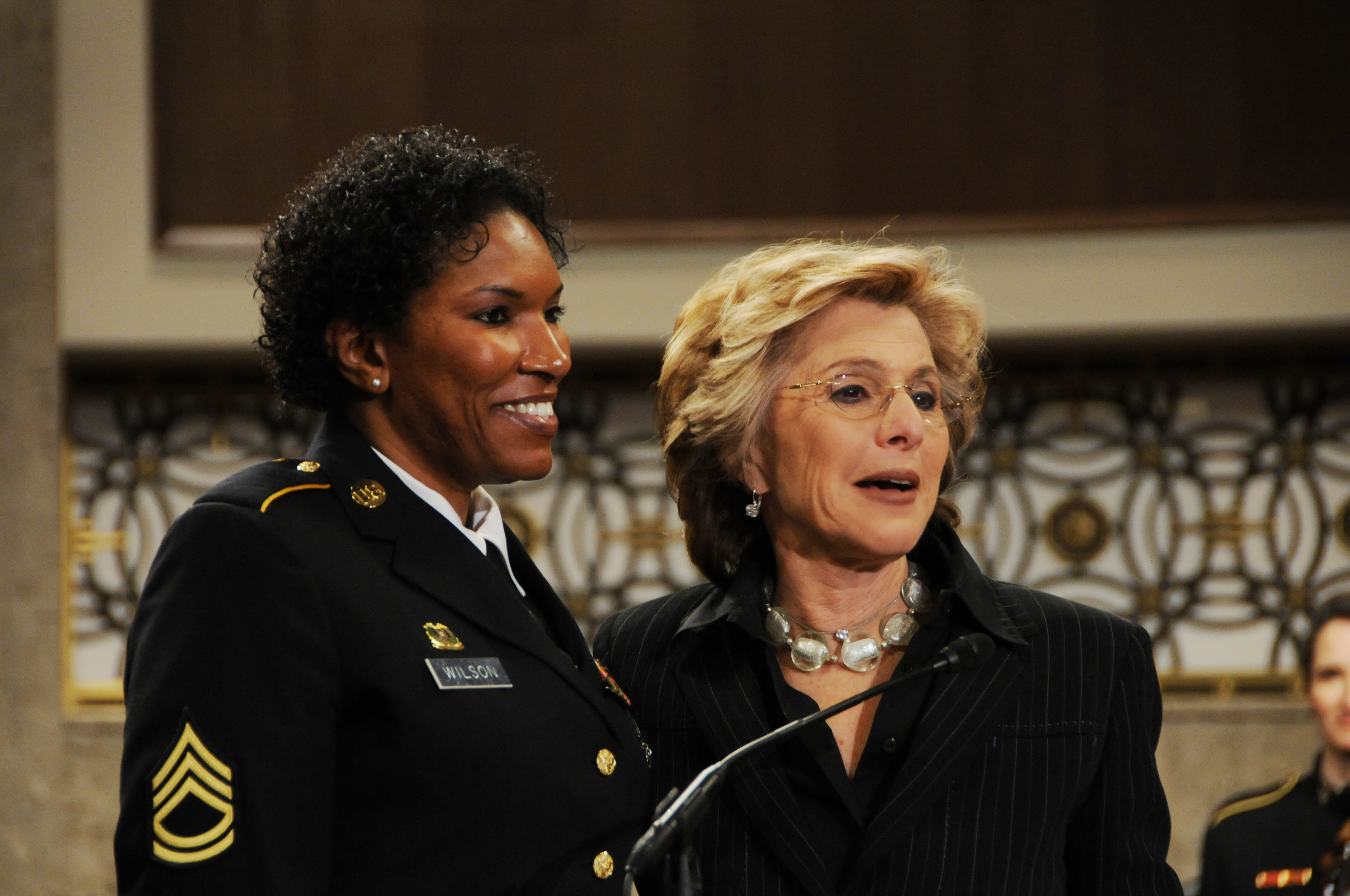 Sen. Barbara Boxer of California, right, presents a Senate Resolution to recognize the accomplishments of women in the military to Sgt. 1st Class Juanita Wilson, a wounded warrior, during the Joint Services Women's History Month Observance on Capitol Hill Thursday." See more at Senate resolution celebrates women in military